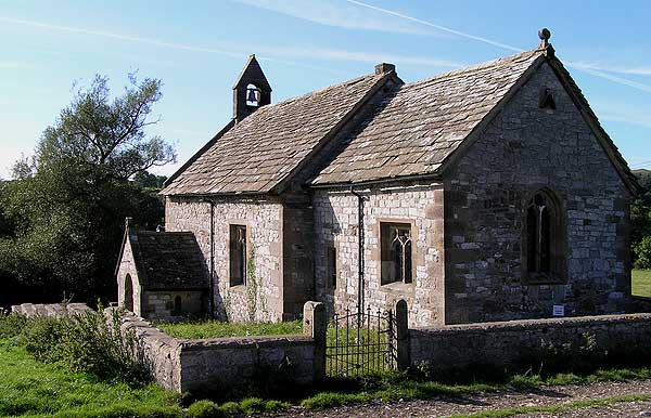 All Saints' church, Ballidon, Derbyshire, seen from the southeast